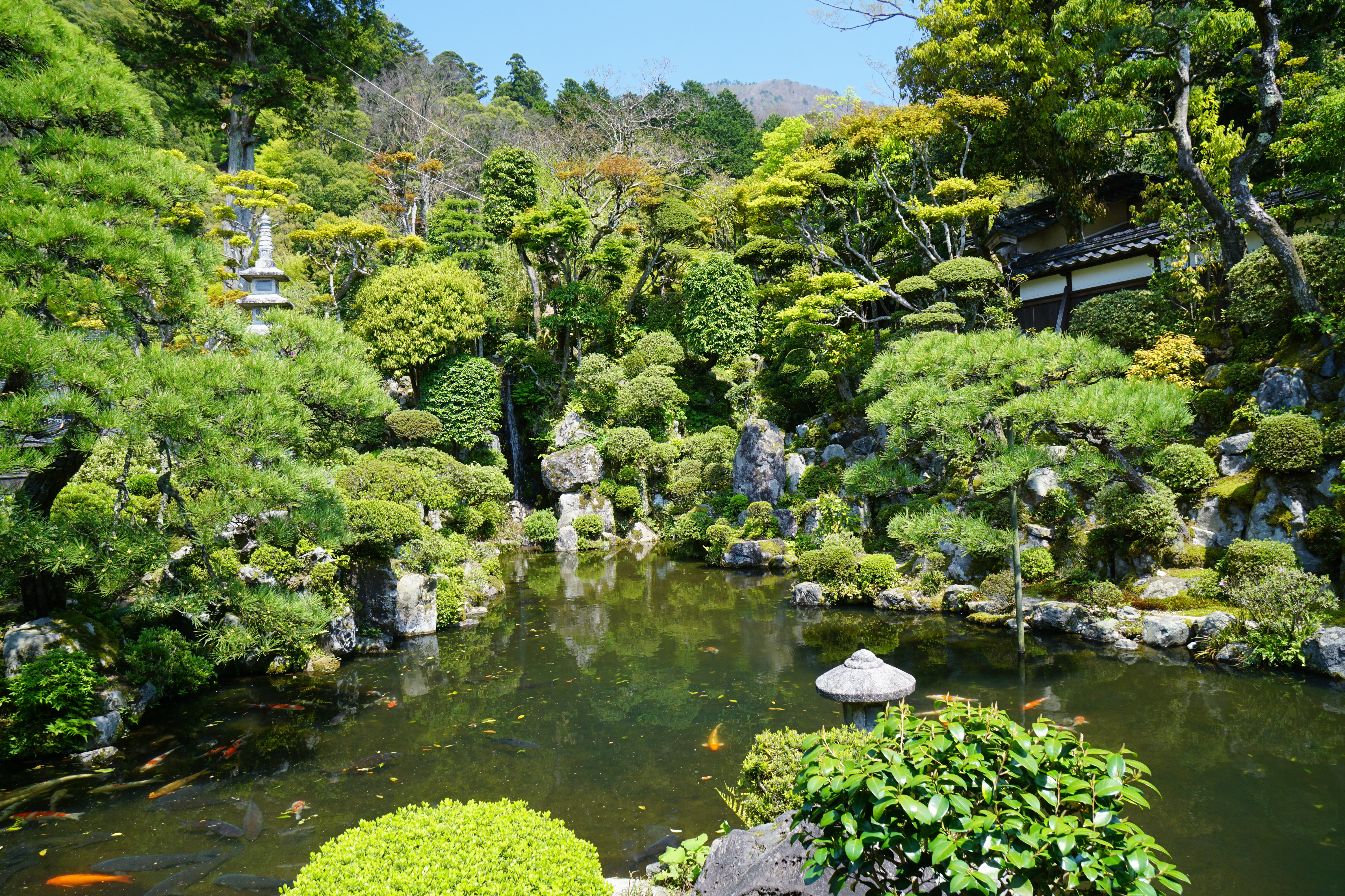 Ishitani Residence in Chizu, Tottori prefecture, Japan